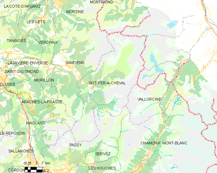 Map of French municipality Sixt-Fer-à-Cheval